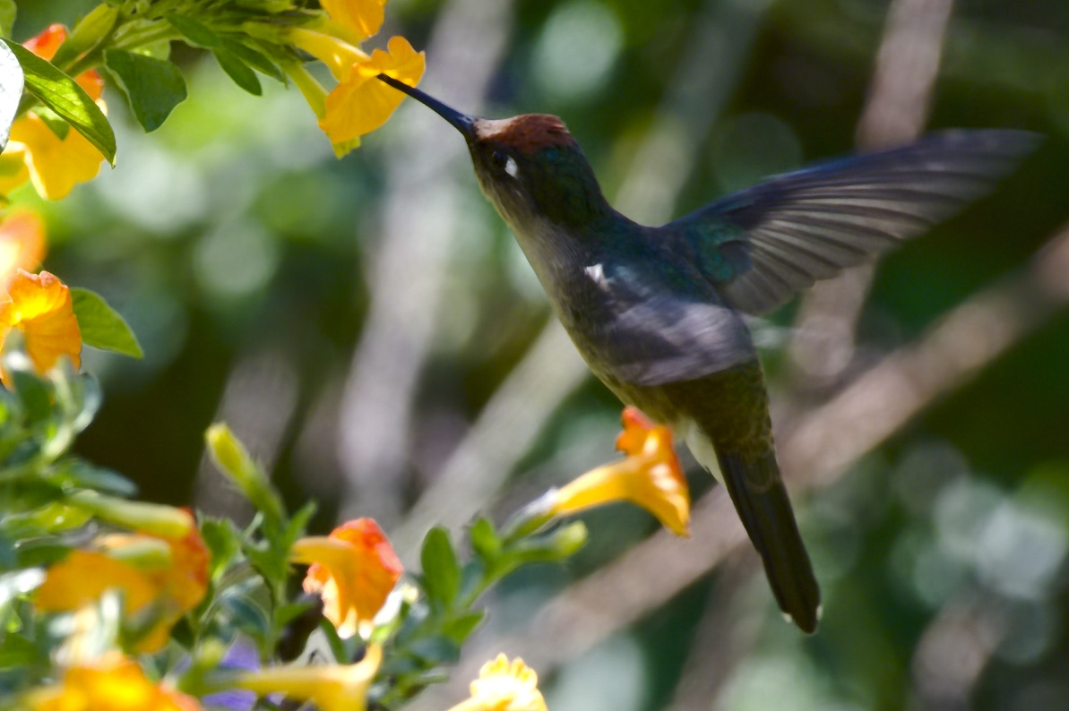 bird at some flowers at UKUKU Rural Lodge